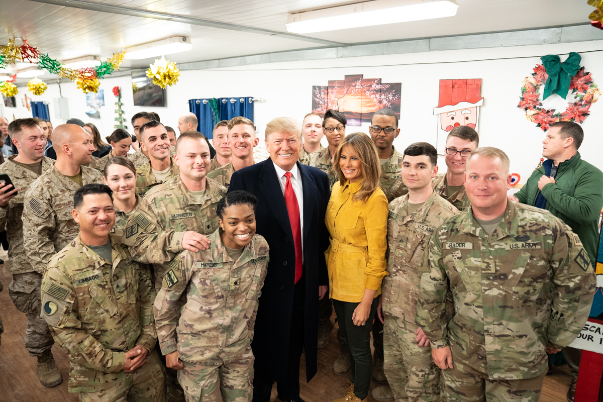 President Donald J. Trump and First Lady Melania Trump pose for a group photo with U.S. troops Wednesday, December 26, 2018, during their visit to the Al-Asad Airbase in Iraq. (Official White House Photo by Shealah Craighead)